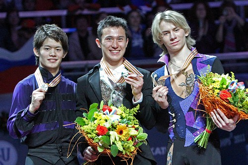 Takahiko KOZUKA, Patrick CHAN and Artur GACHINSKI at the 2011 World Figure Skating Championships